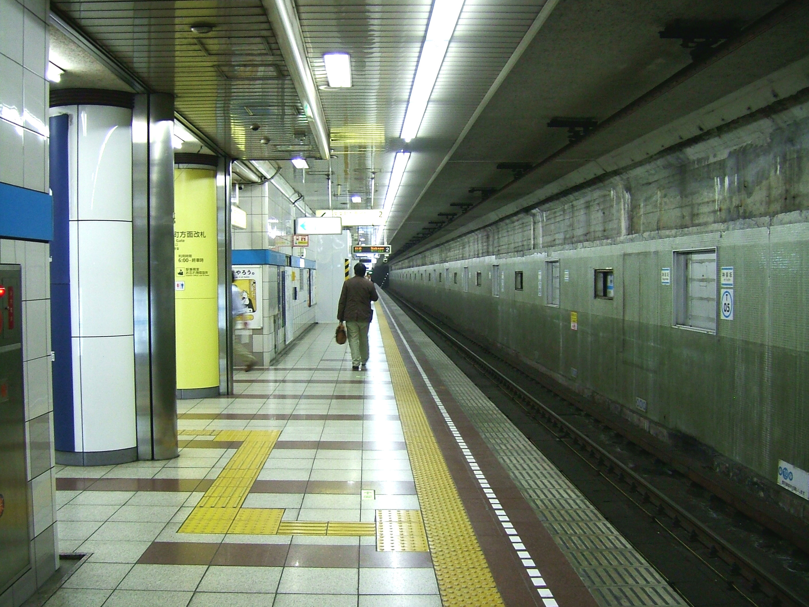 Kagurazaka Station no.2 platform (Tokyo Metro Tōzai Line)